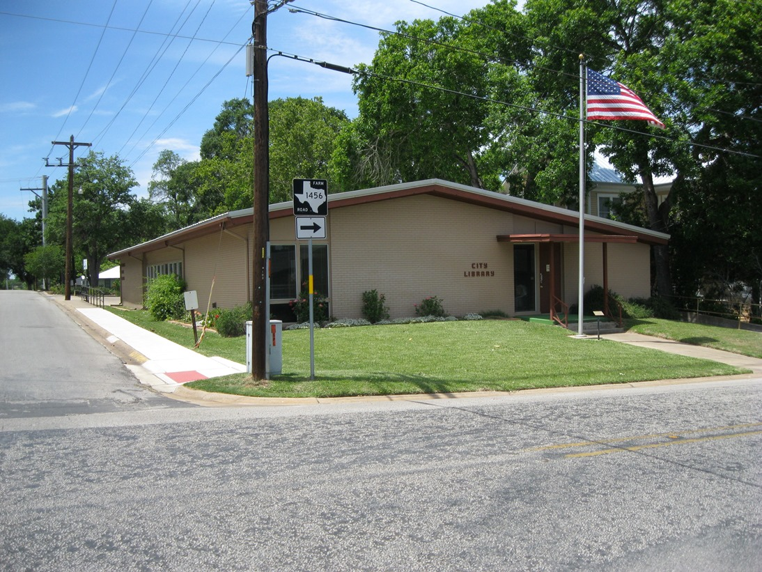 Photo shows the city library at Holland and Palm Streets in Bellville, Texas. FM 1456 follows Holland Street to the north out of the city. View is toward the northwest.